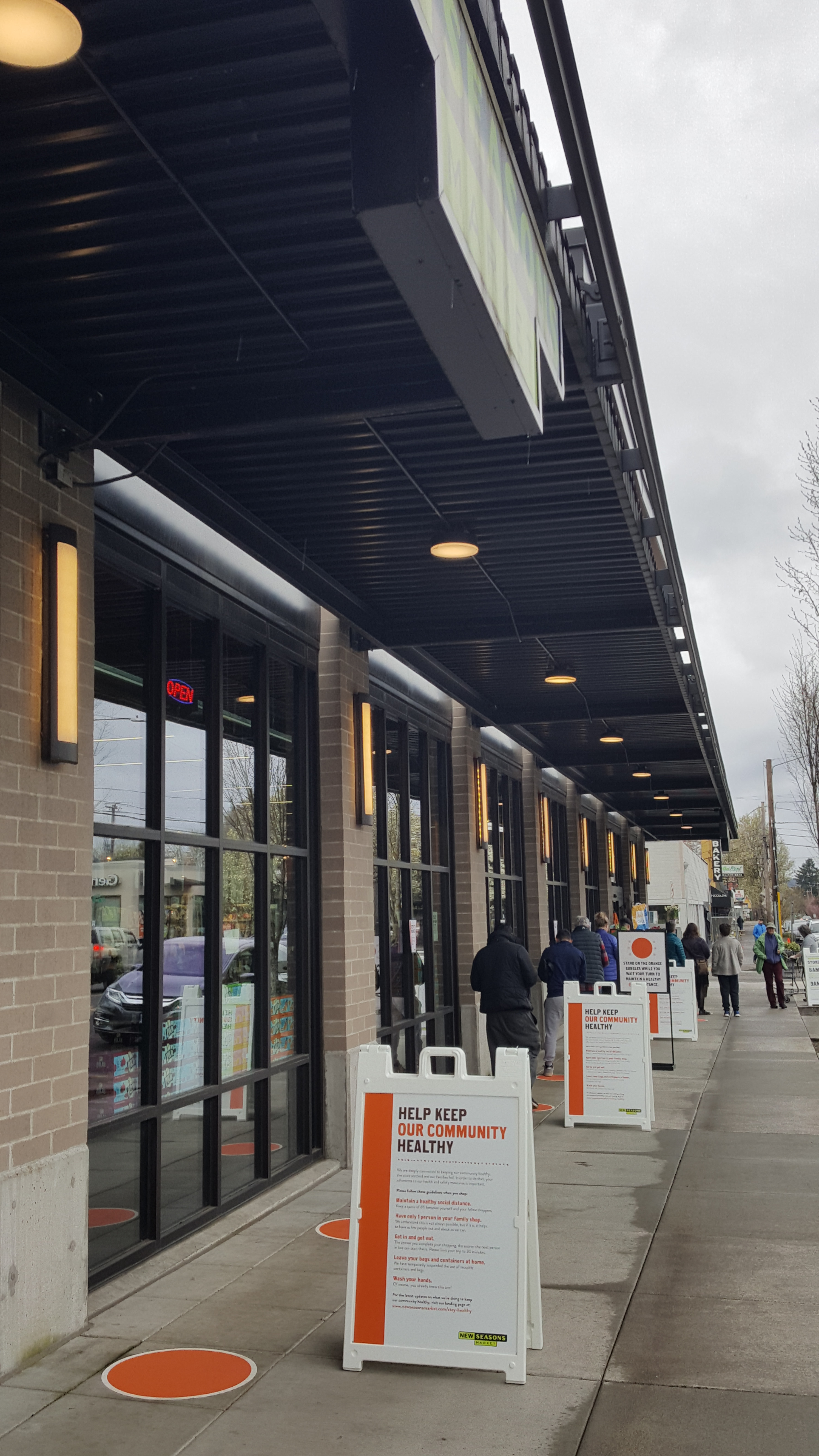 Portland, Oregon during the coronavirus pandemic, March 2020 - New Seasons, Woodstock neighborhood